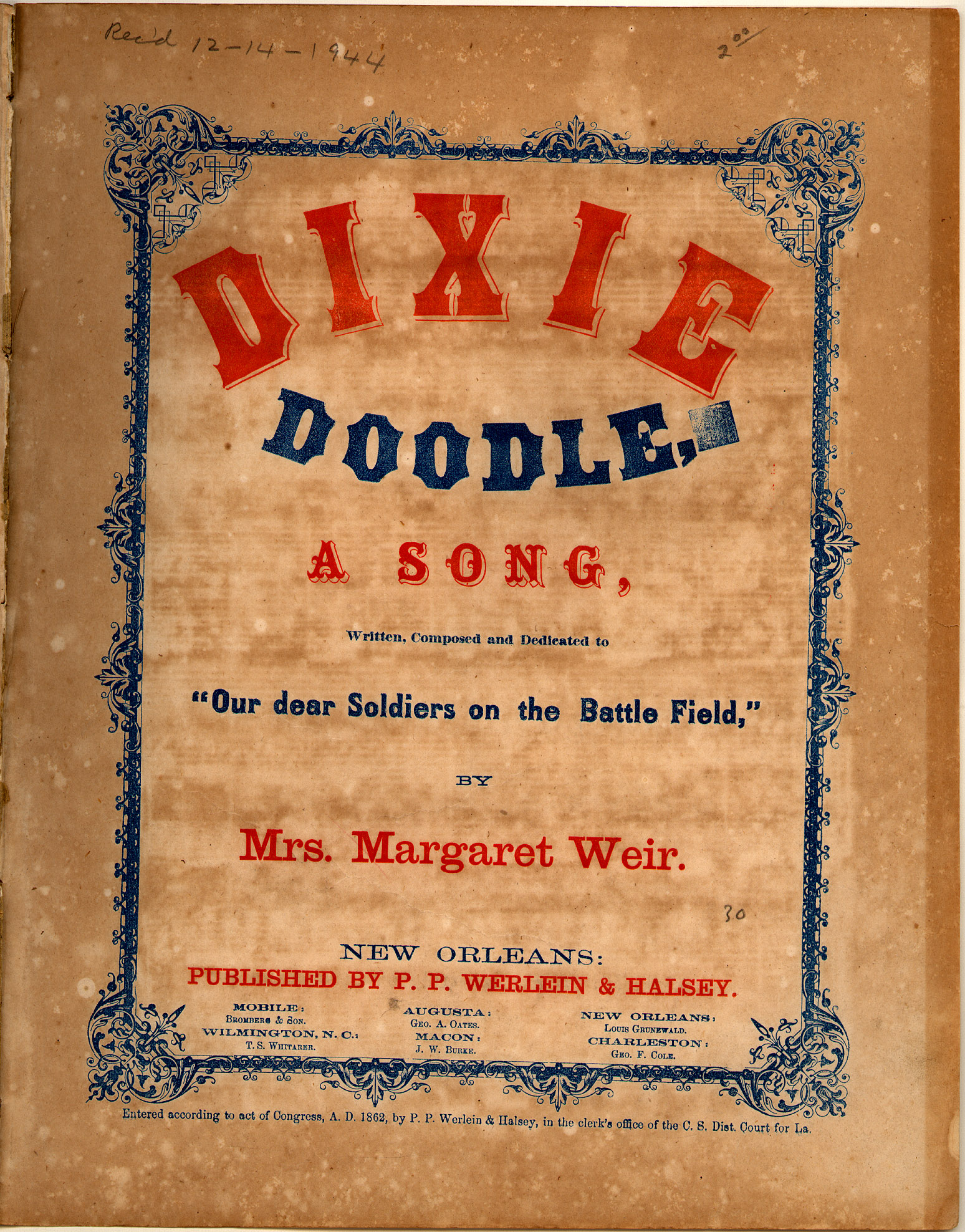 "Dixie Doodle" sheet music cover, 1862 Note: A pro-South parody of "Yankee Doodle" during the American Civil War. See article Dixie Doodle.